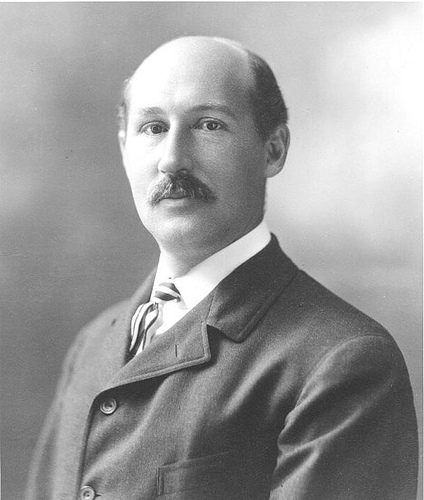 Portrait of Walter Chauncey Camp, Yale College Class of 1880. From a 5x7-inch negative. Image courtesy of the Yale University Manuscripts & Archives Digital Images Database. Retouched by MarmadukePercy.